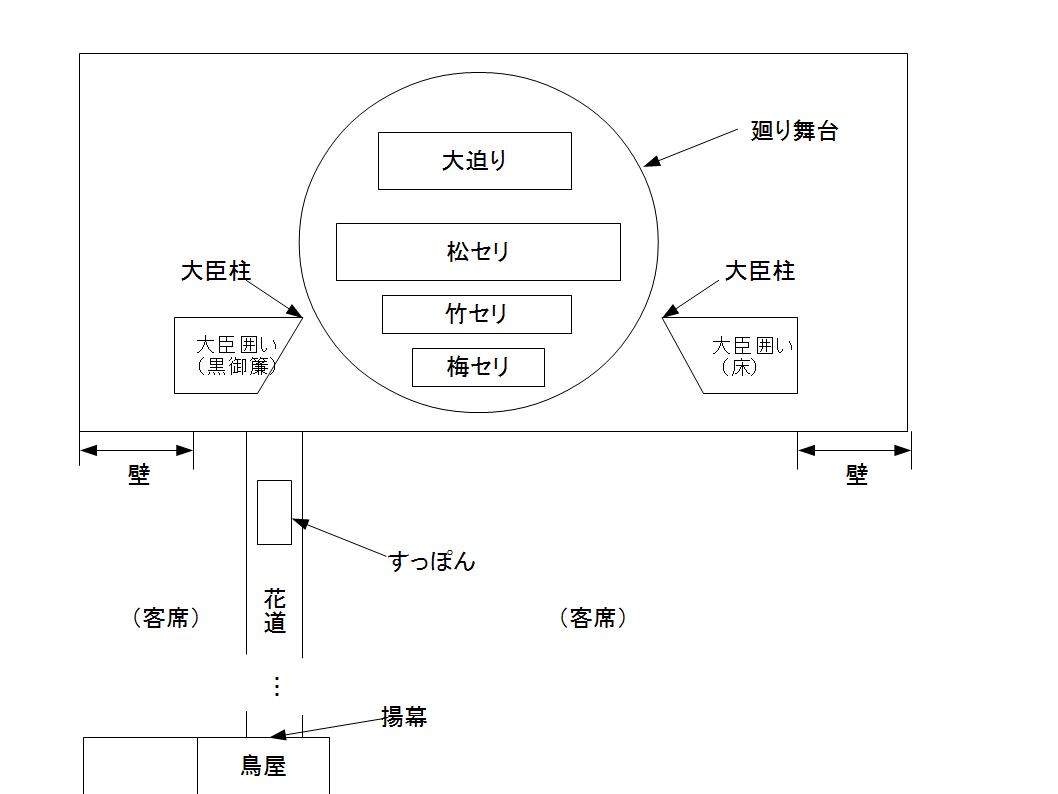 Kabuki Theater (with Japanese explanations)